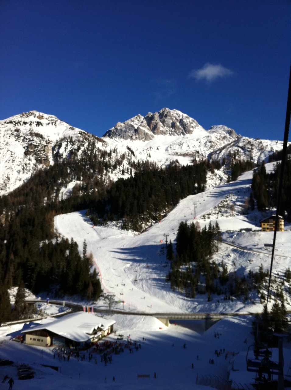 Nassfeld